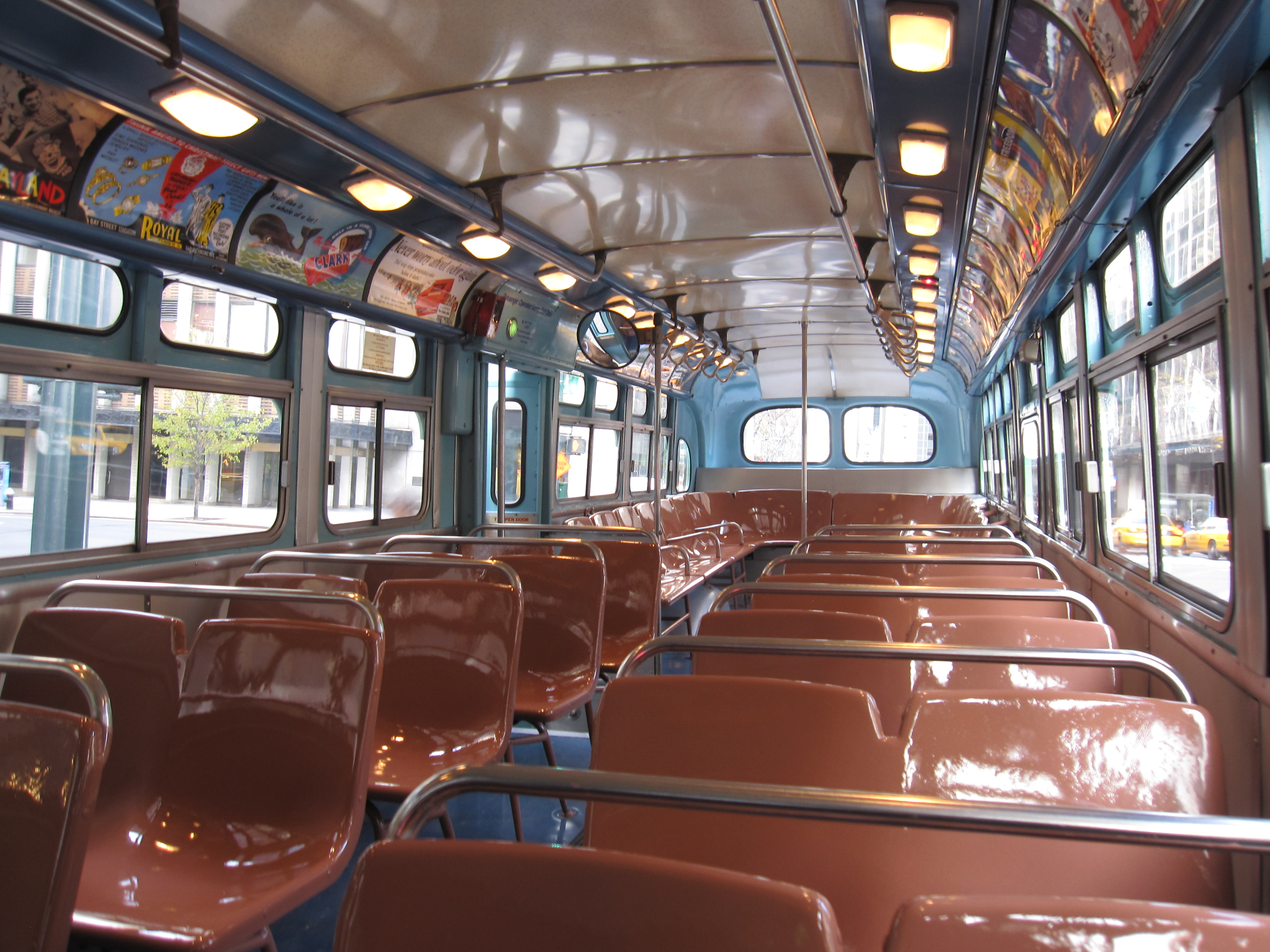 New York City MTA General Motors TDH-5106 (#9098) on 42nd Street, taken out specially for the Christmas season.